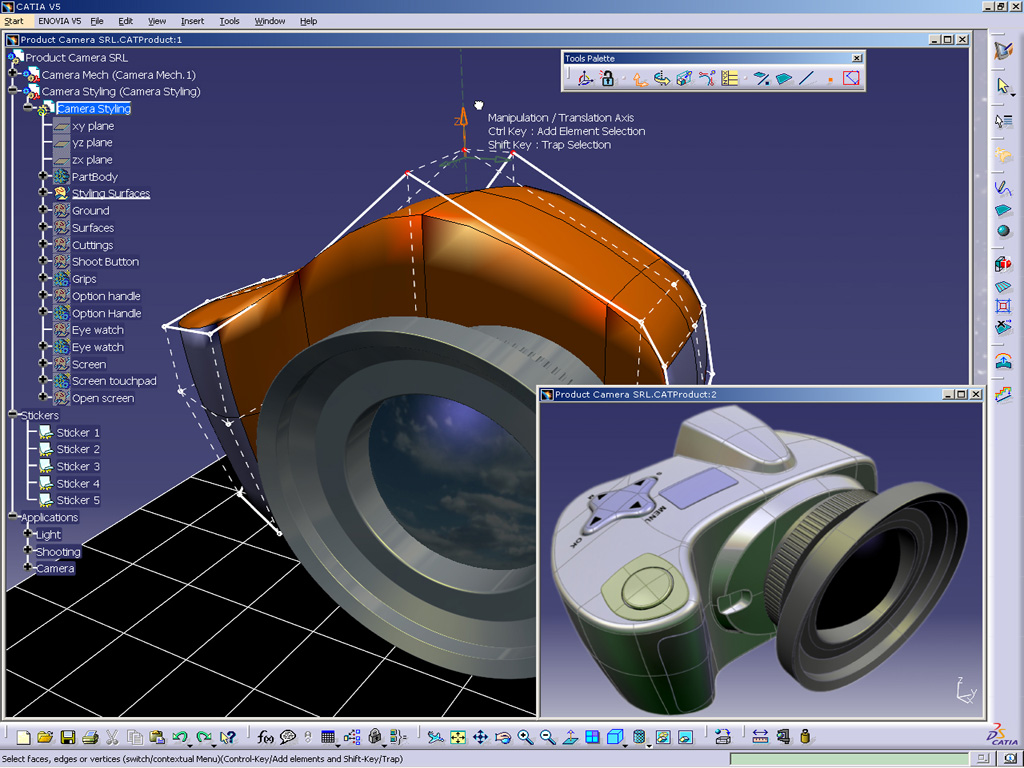 I made the image myself. The full gallery is on my web page at